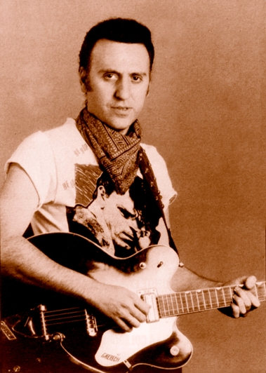 Tony Luz playing in Bulldog